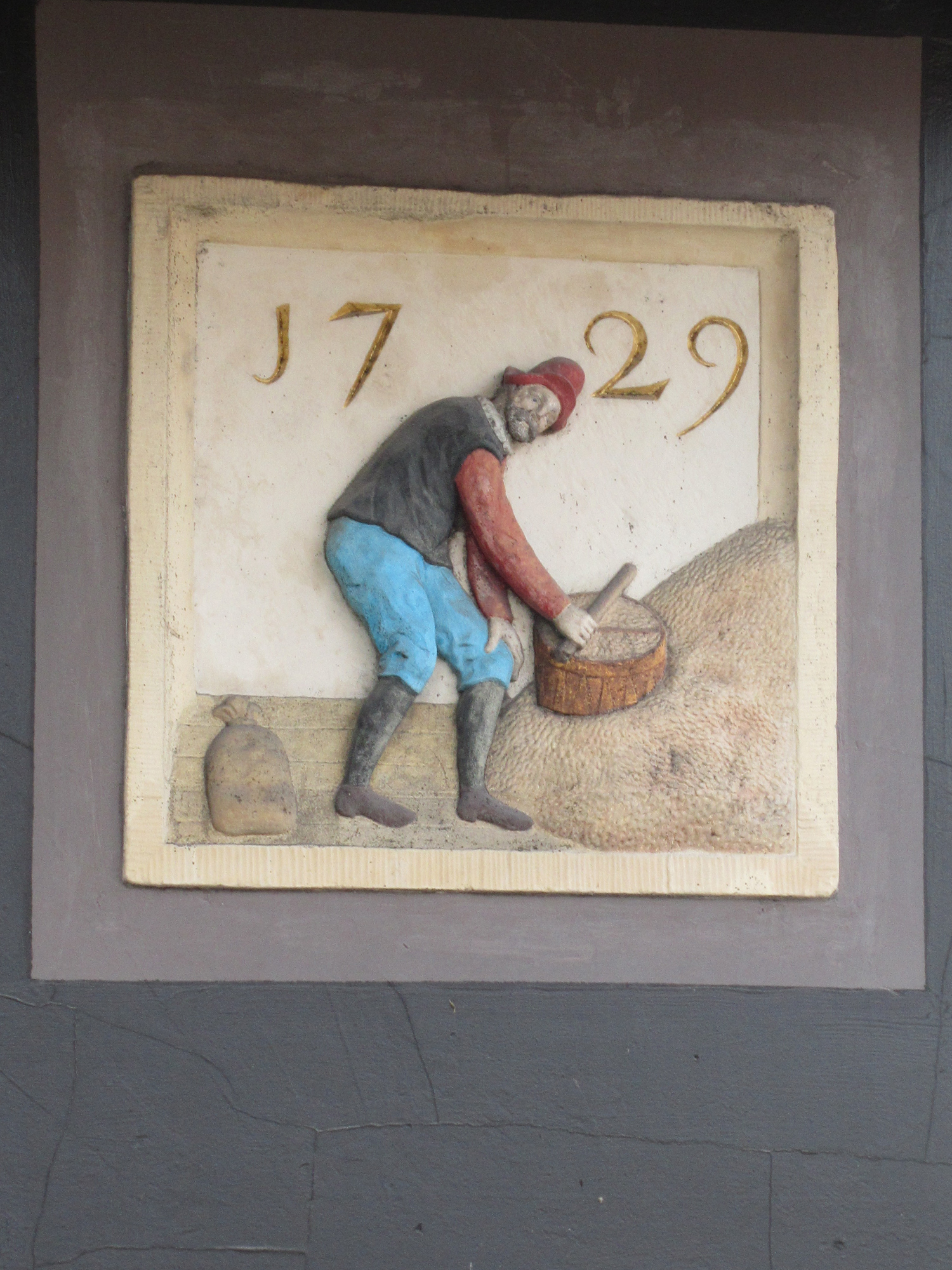 Gable stone at Brouwersgracht 163 (on the corner with Palmstraat) in Amsterdam, depicting a korenmeter (grain measurer). He is using his strekel or strijkstok (wiping stick) to wipe off the excess grain